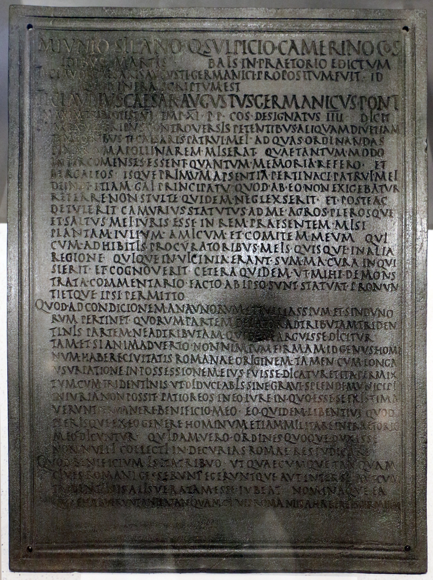 Copy of Claudius' edit of 46, found at Cles, city near Trente. Roman antiquities in the Buonconsiglio Castle